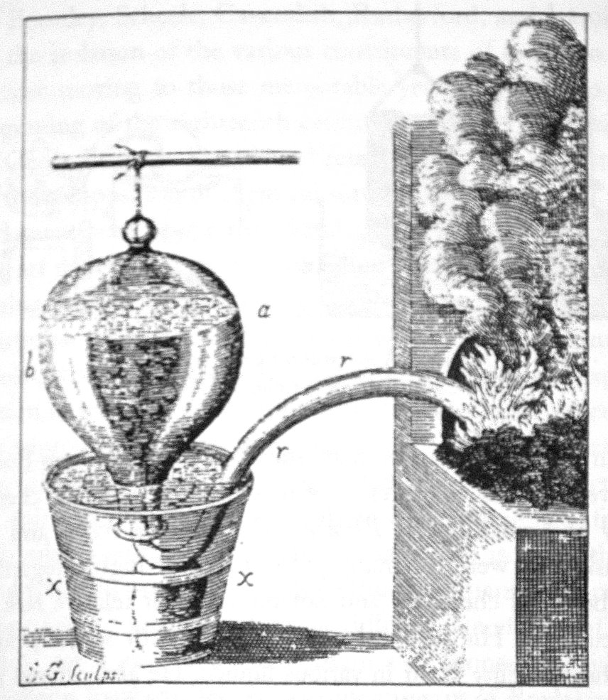 English natural philosopher Stephen Hales' pneumatic trough. A similar device was used by Joseph Priestley for the production of novel "airs", and for performing the "nitrous air test".